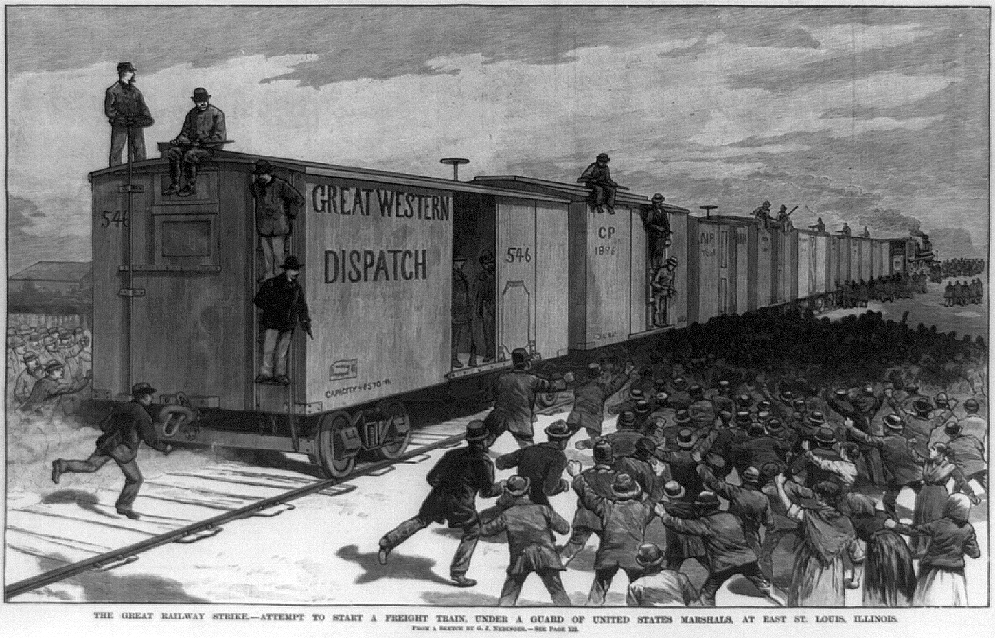 The great railway strike--attempt to start a freight train, under a guard of United States marshals, at East St. Louis, Illinois.